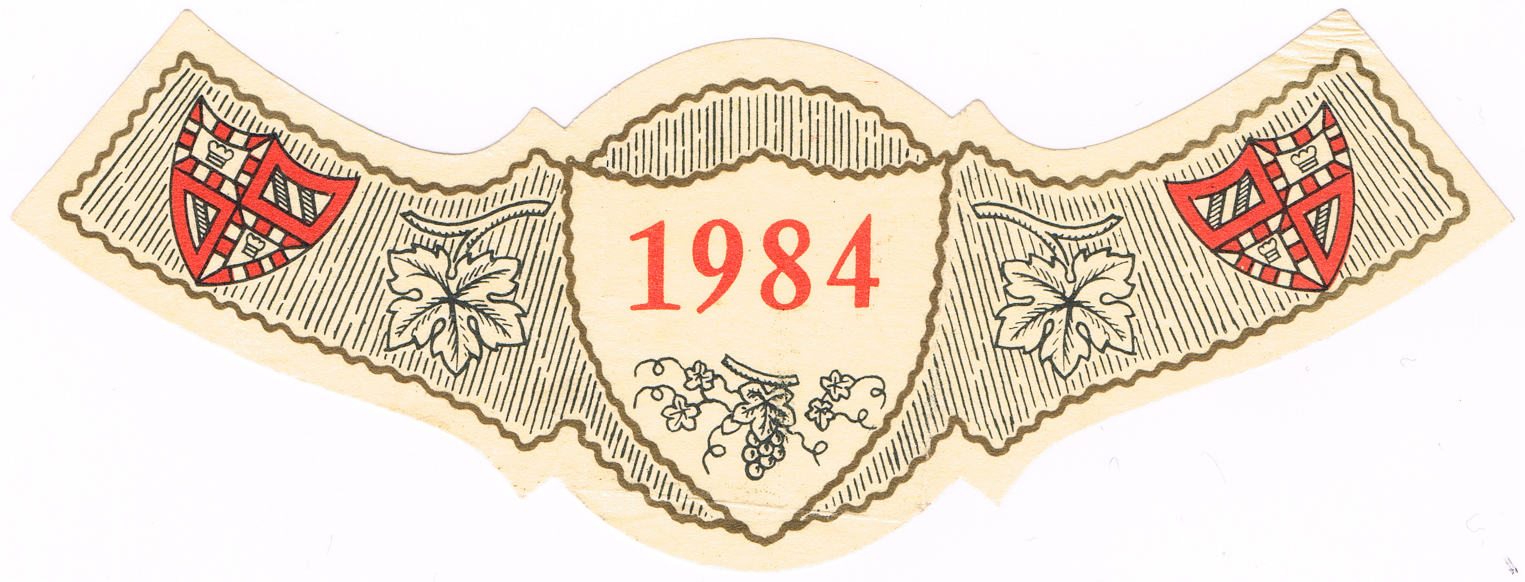 A label used on the neck of a bottle of burgundy wine - year 1984